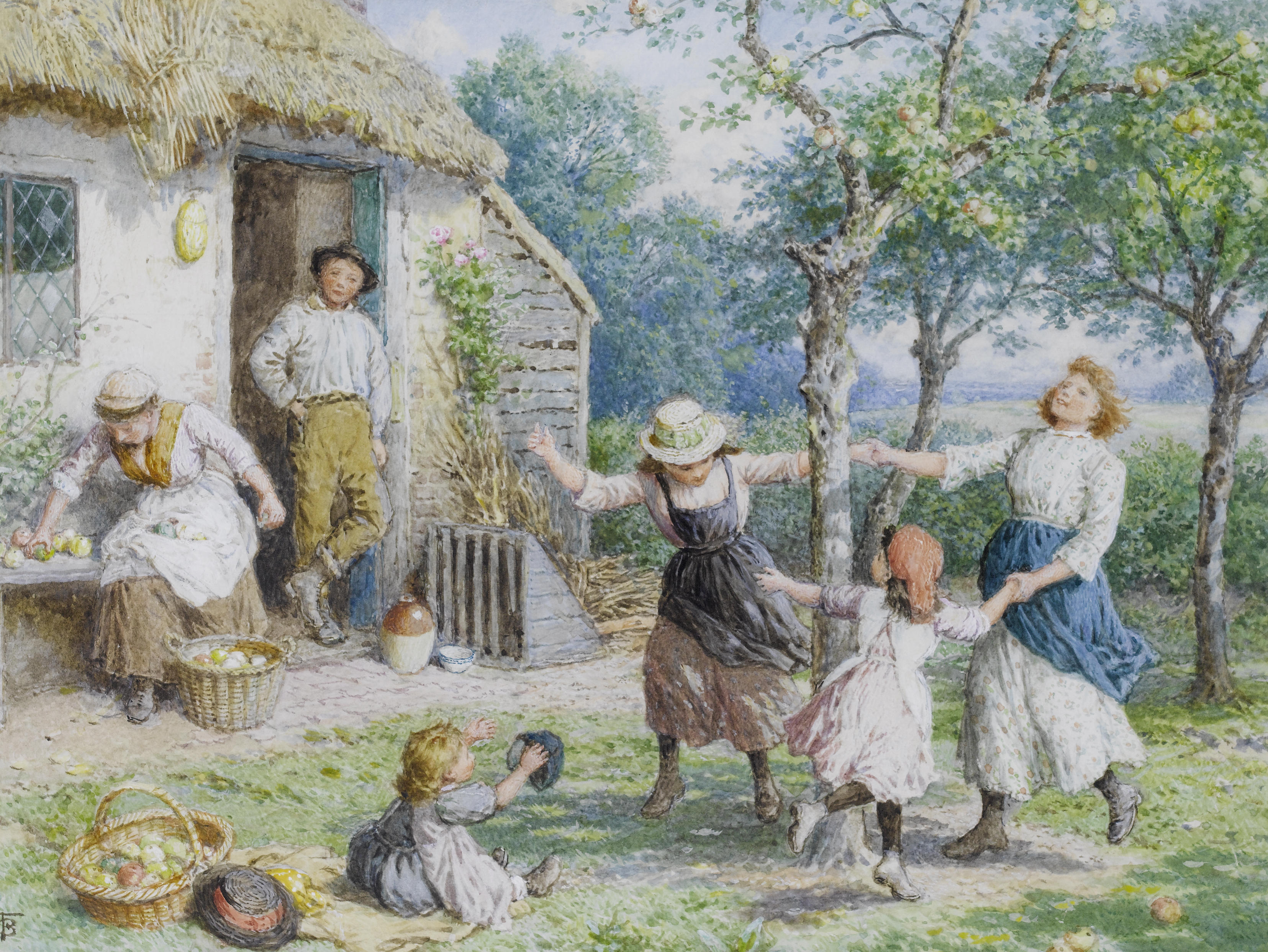 Ring a Ring a Roses. Signed with monogram. Watercolour heightened with bodycolour, 20.5 x 27 cm